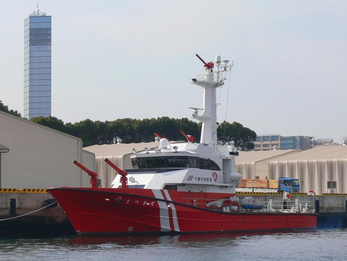 "Matukaze" of the fireboat of Chiba City National Fire Prevention and Control Administration(Japan,Chiba prefecture,Chiba City). 千葉市消防局に所属する消防艇の「まつかぜ」。 千葉港にて停泊中の所を遊覧船より撮影。